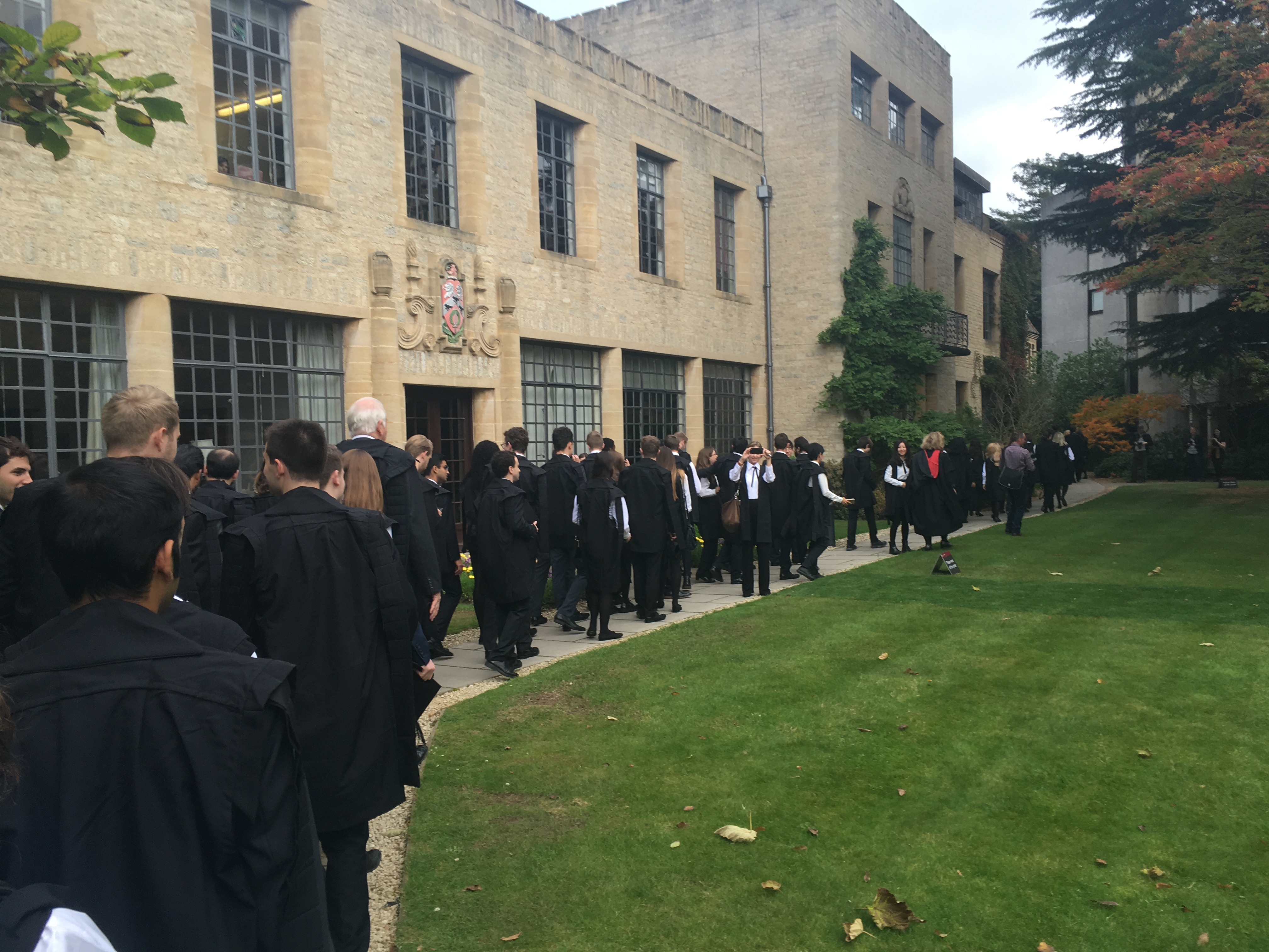 A picture of St Anne"s College's Hartland House, Saturday 14th October 2017. This is matriculation day, so students are wearing Sub Fusc and gowns.